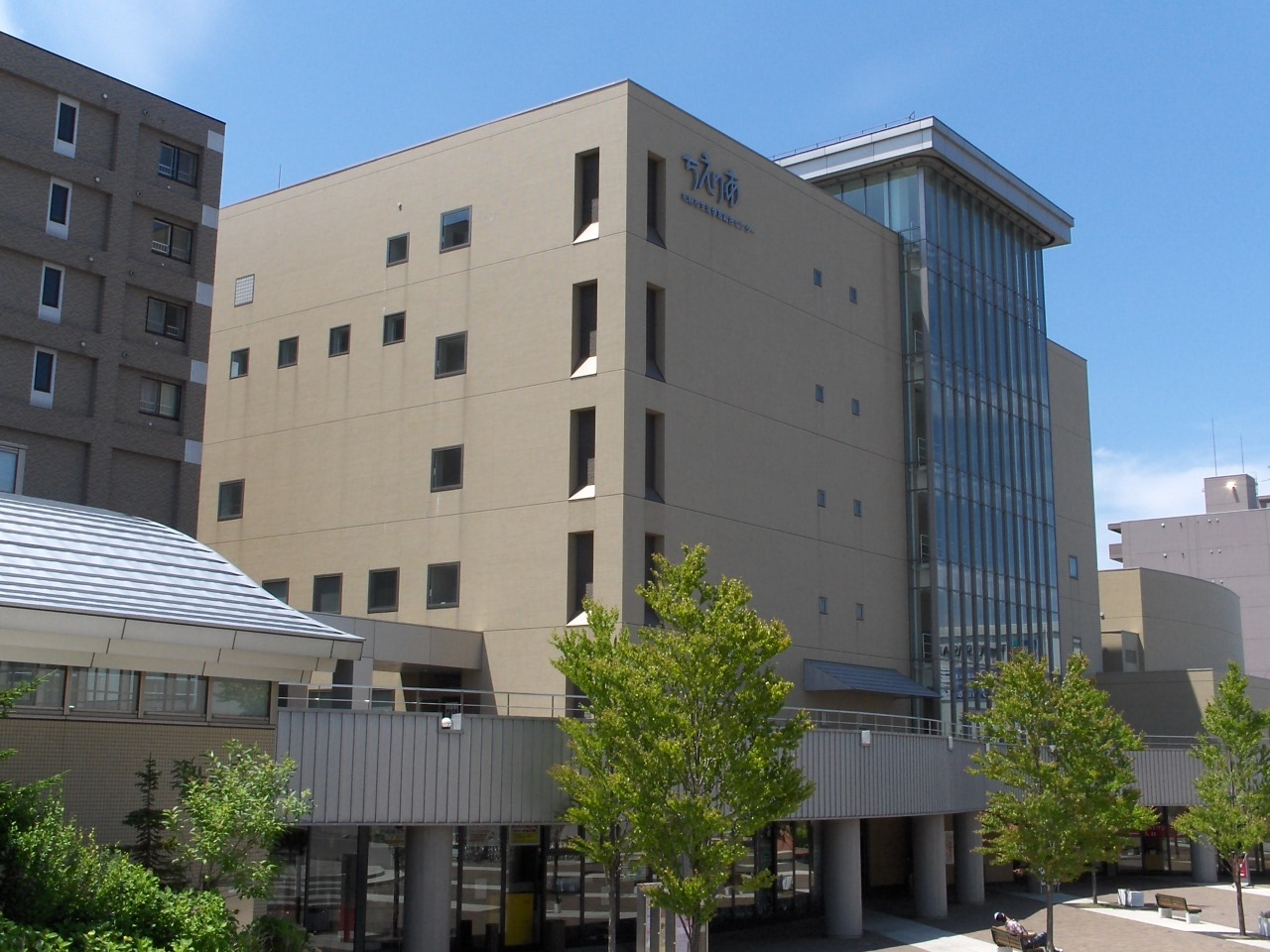 The Sapporo Lifelong Learning Center (Sapporo-shi shōgai gakushū sentā), also known as Chieria, pictured in 2007.